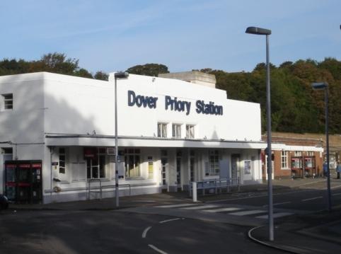 Main station building at Dover Priory railway station. Photographed on 30 September 2007.